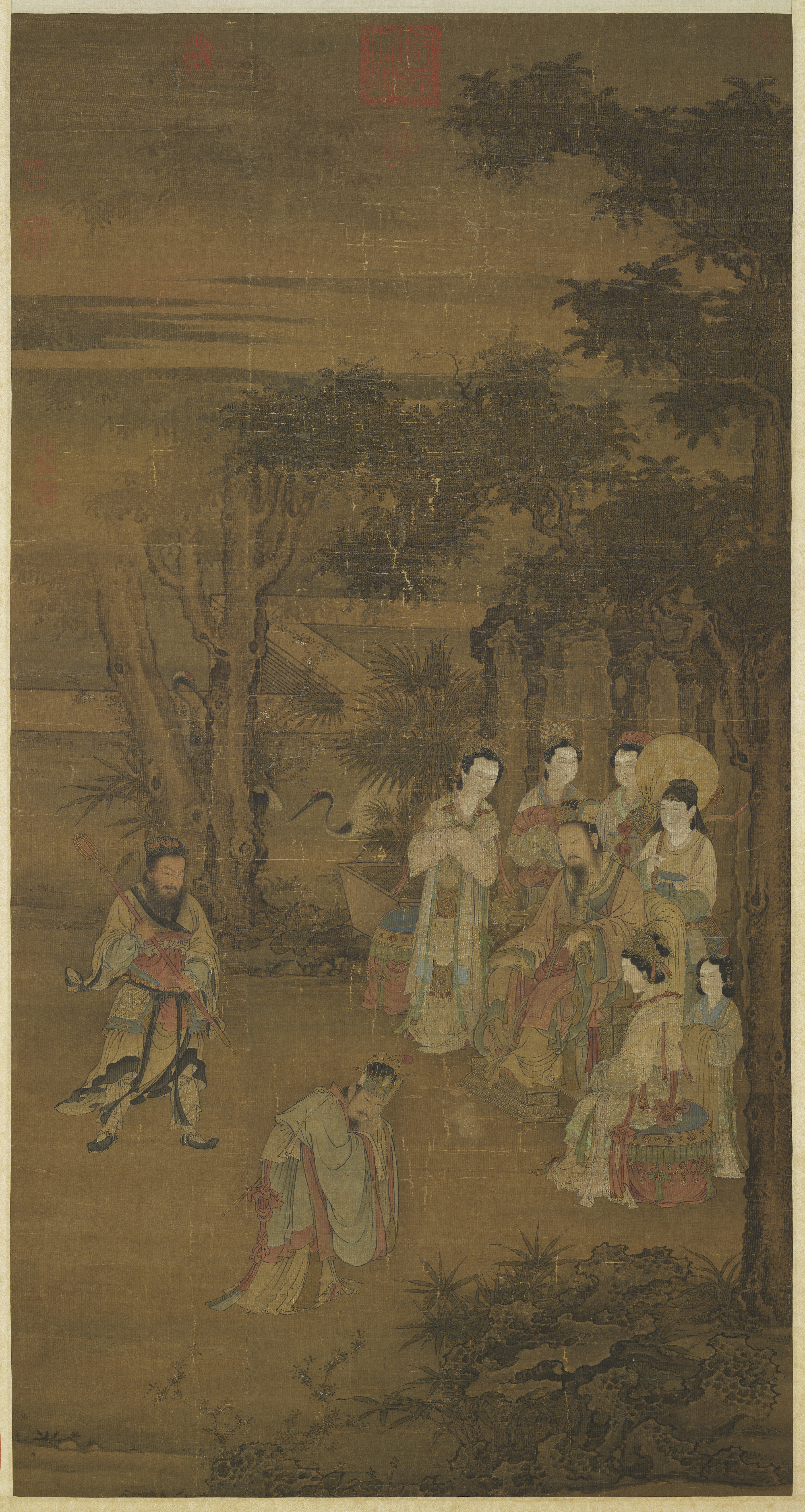 This work depicts a historical event from the reign of Emperor Wen of Han (漢文帝; 179-157 BCE). The emperor, his empress, and his favored consort Lady Shen (慎夫人) went to Shanglin Garden (上林苑), where the upright official Yuan Ang (爰盎; ca. 200-148 BCE) remonstrated the emperor for allowing Lady Shen to sit by the ruler and thereby breach protocol. He argued that such an arrangement was counter to hierarchy and bring about disorder, laying the blame on Lady Shen. The emperor listens to Yuan intently, while Lady Shen refuses the seat. It expresses the idea of orderly court relations, in which the ruler open-mindedly accepts remonstration as officials offer advice based on reason and consorts act according to protocol.